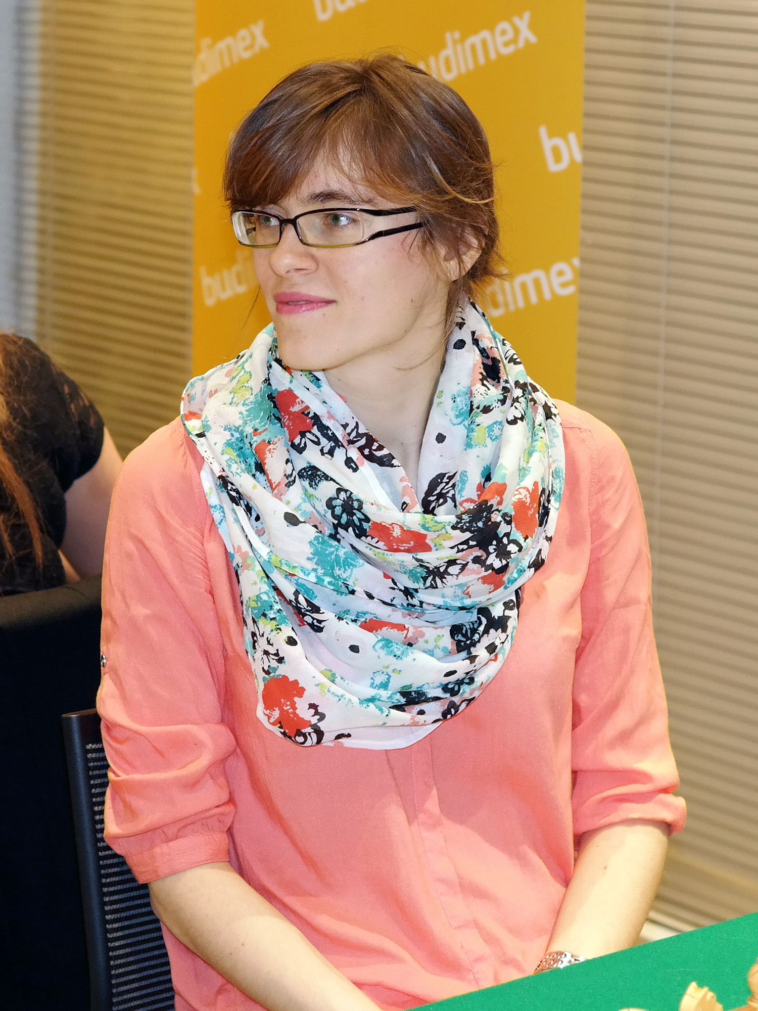 WGM Marta Bartel, Polish Chess Championship, Warsaw 2014